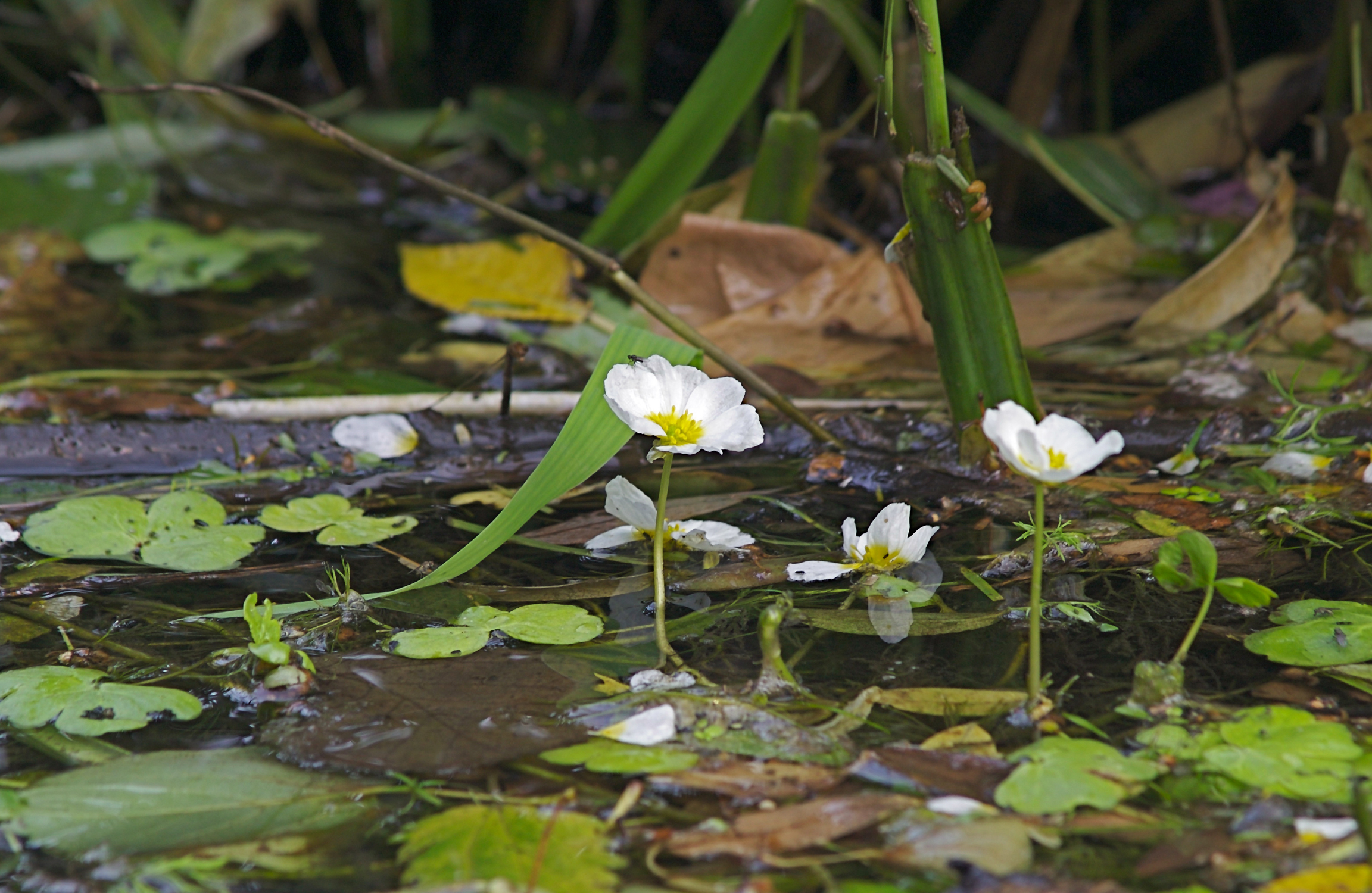 Ranunculus circinatus, Chemnitz, Germany